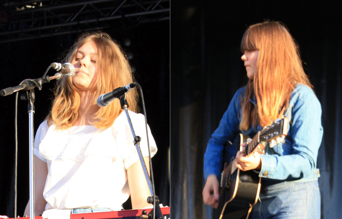 First Aid Kit at the Folklore in Wiesbaden